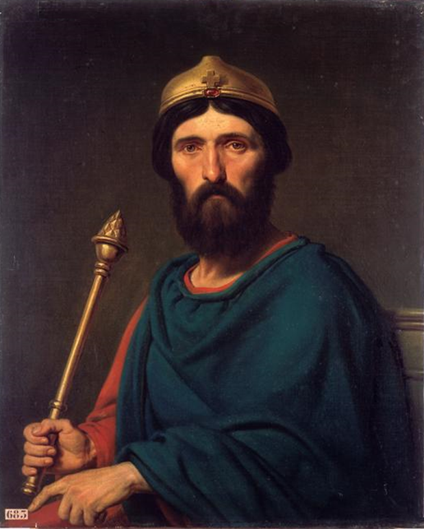 Portraits of Kings of France is a serie of portraits commissioned between 1837 and 1838 by Louis Philippe I and painted by various artists for the Musée historique de Versailles.